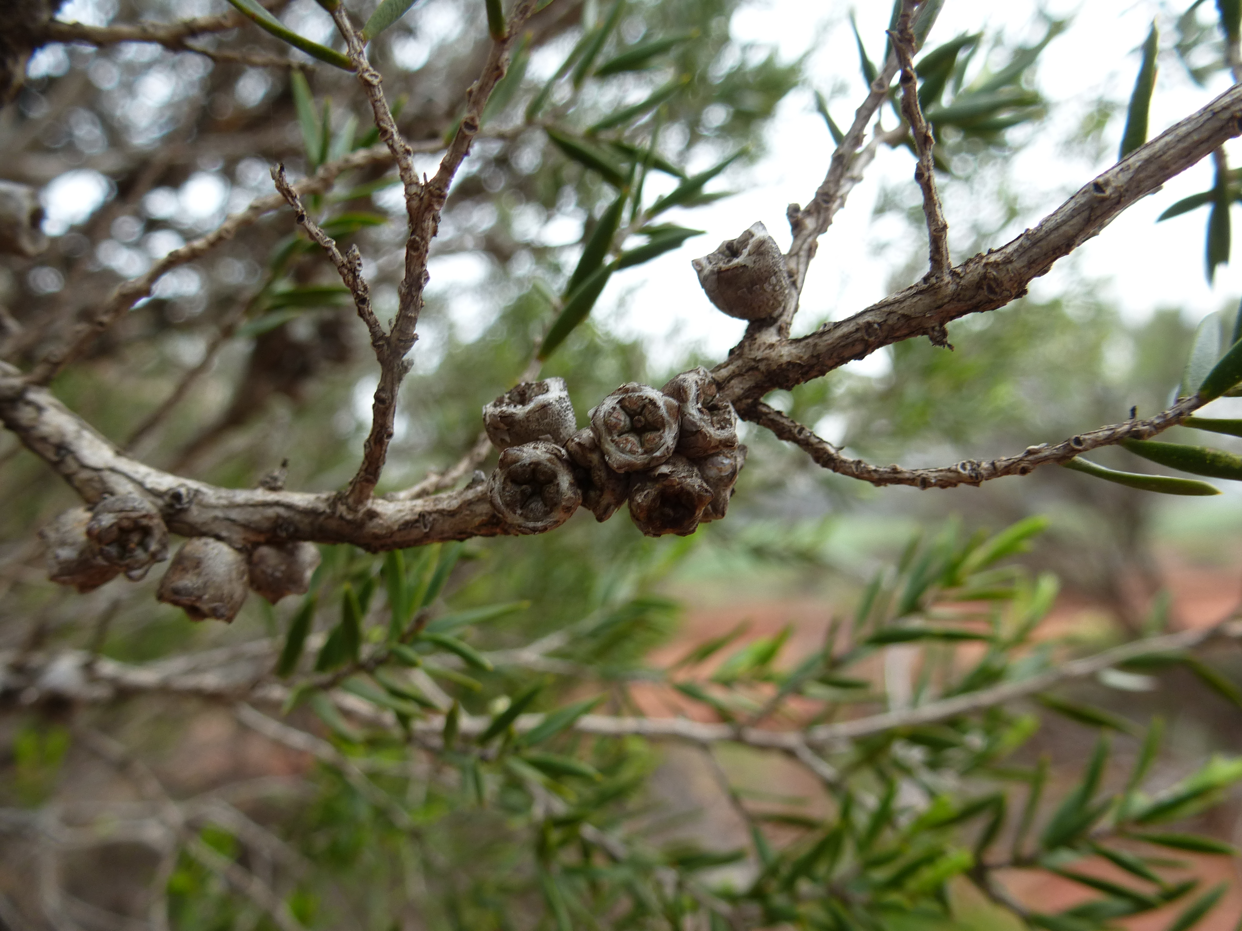 Melaleuca delta at the type location near Wongan Hills